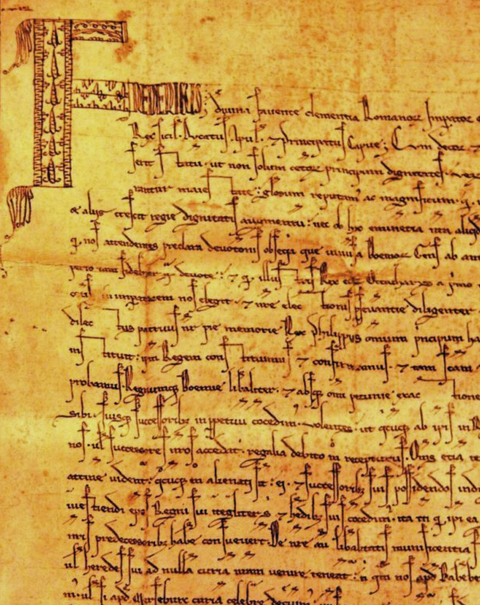 Golden Bull of Sicily, detail